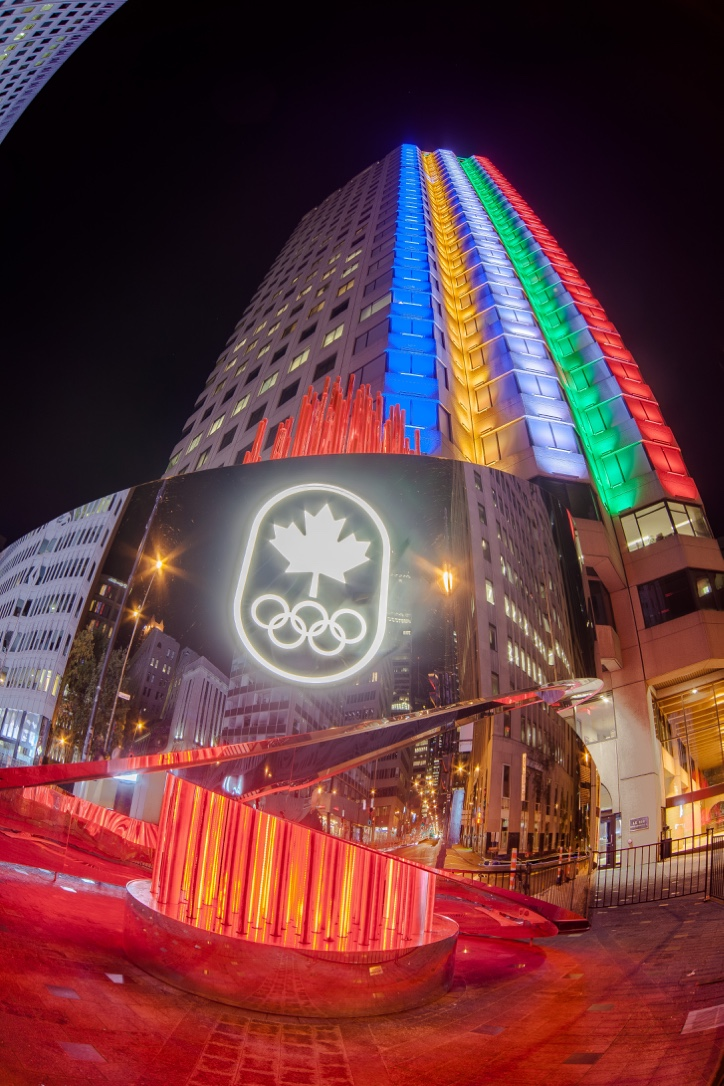 Maison Olympique Canadienne